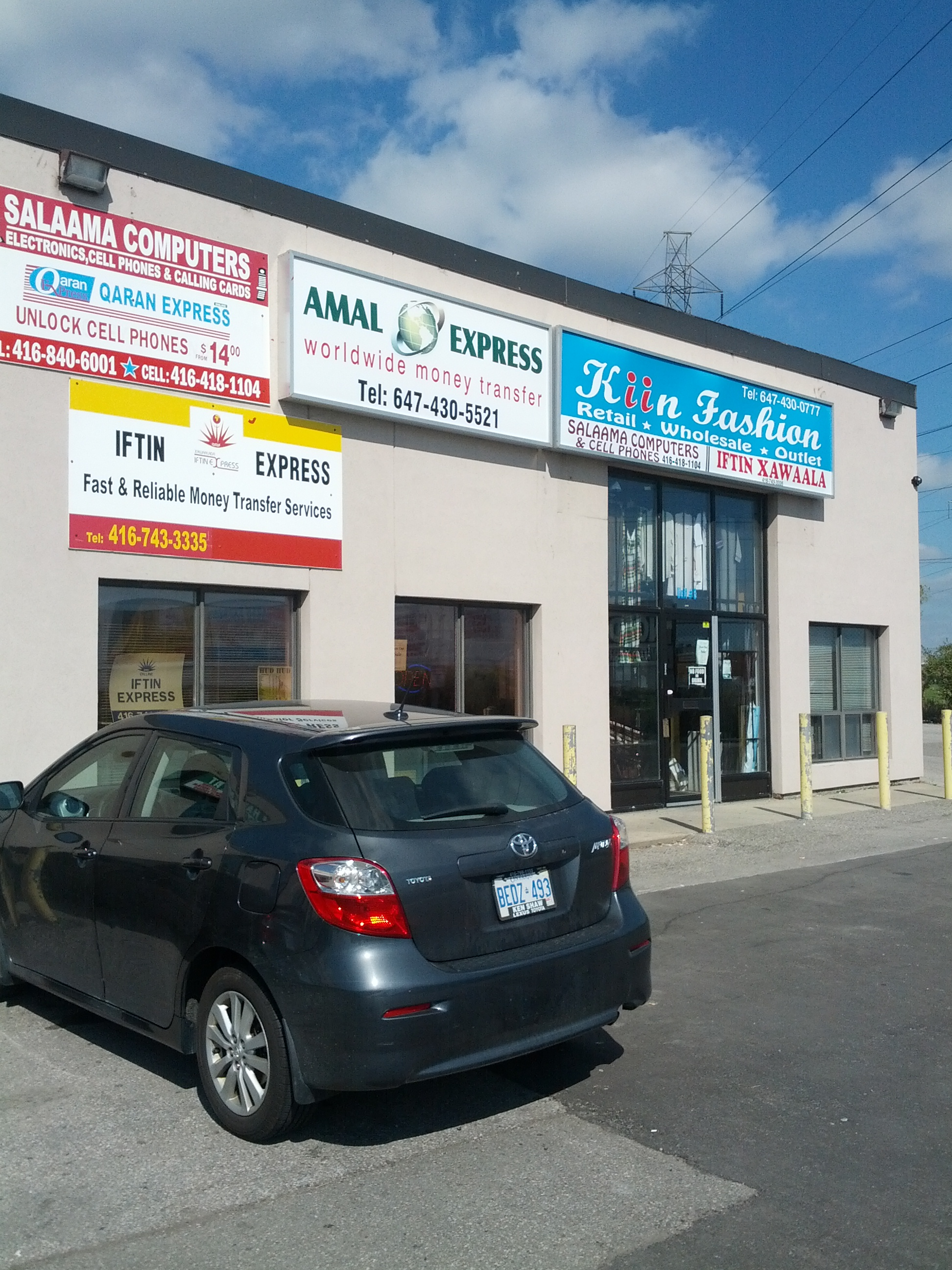 Electronic, money transfer and wholesale stores at a Somali-owned strip mall in Toronto, Canada.